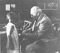 Alfred Adler Bandaging a Child's Hand